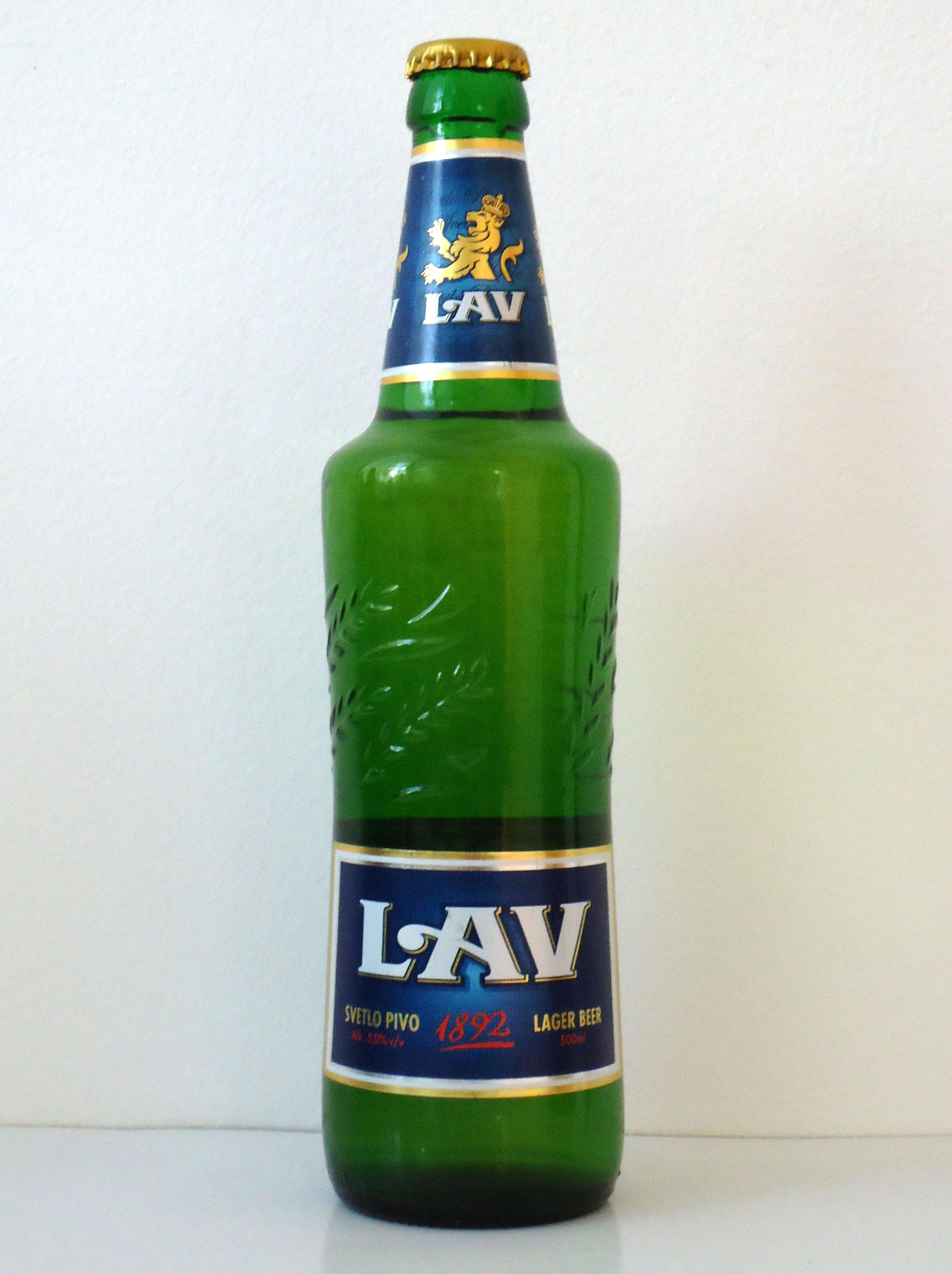 Lav beer